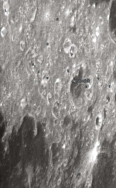 Apollonius lunar crater as seen from Earth with satellite craters labeled